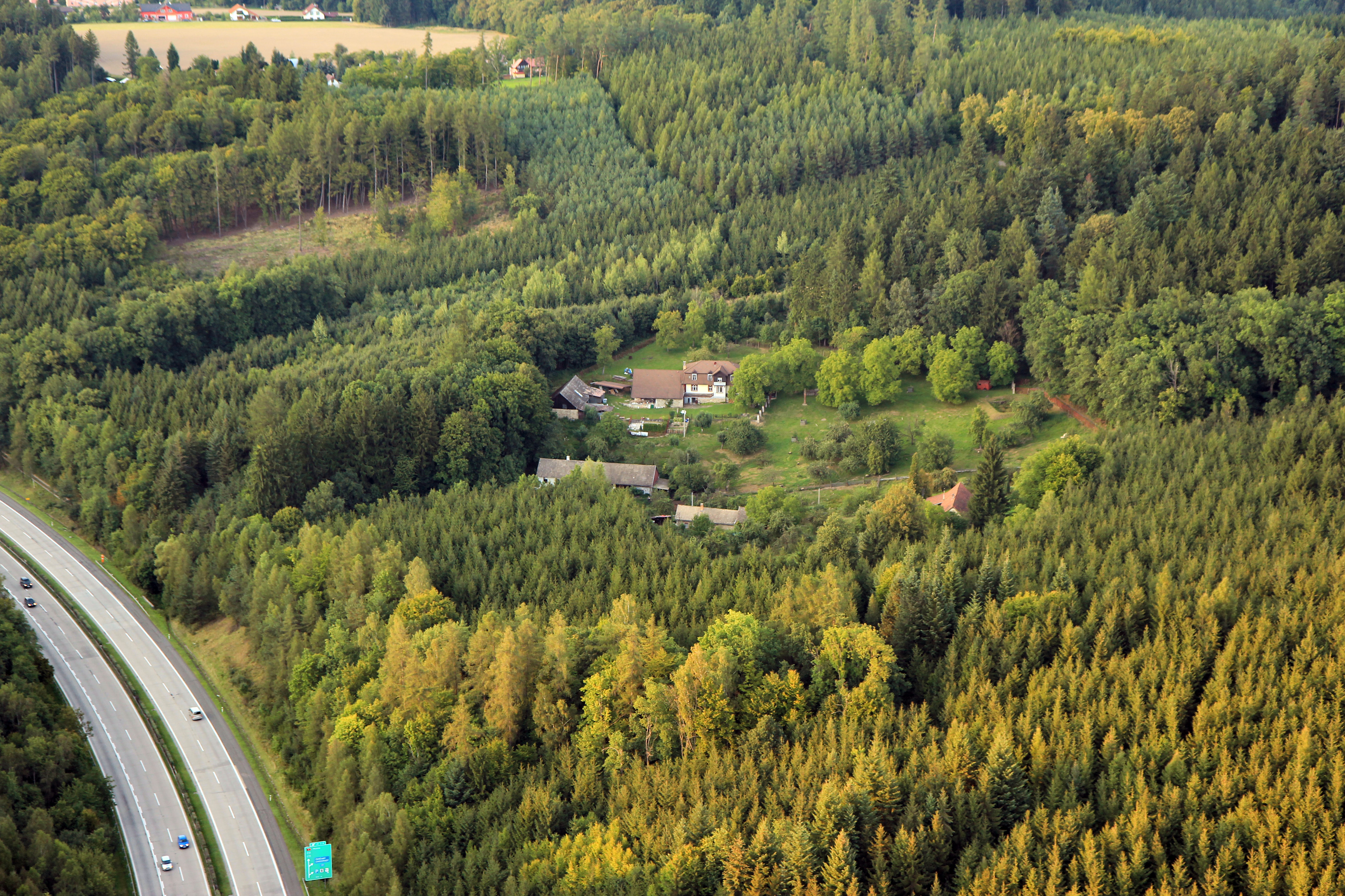 Aerial view of Vráž, part of Ostředek village, Czech Republic, with D1 motorway